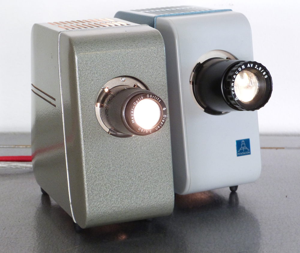 slide projector ASPECTAR 150 A